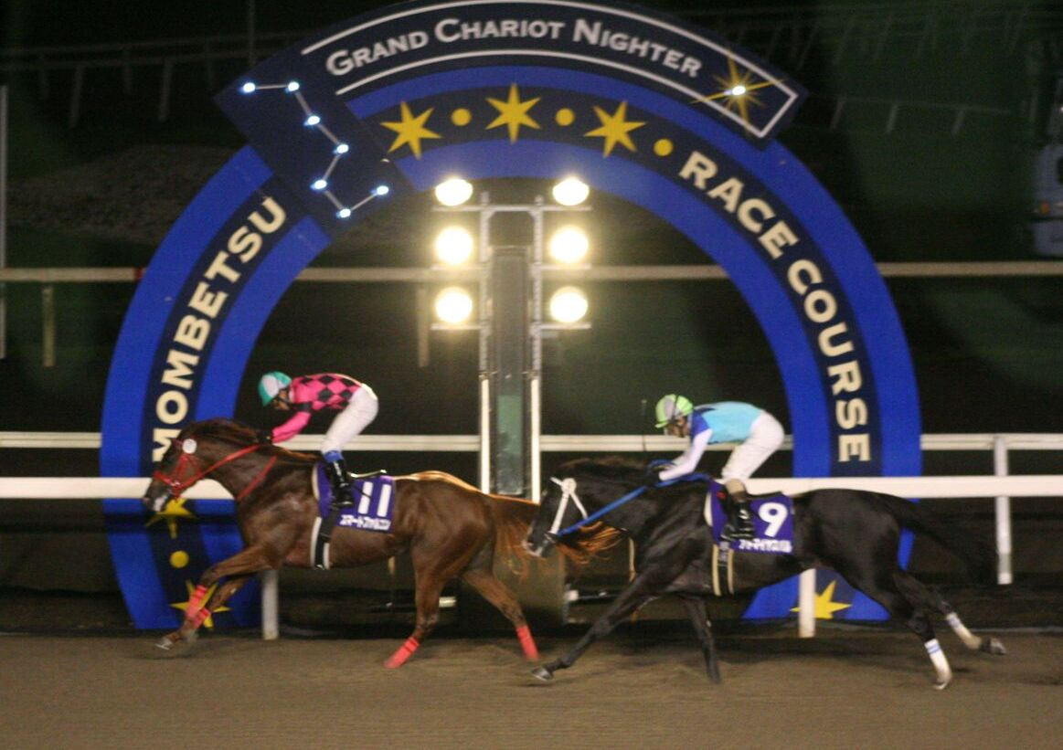 The 21st Breeder's Gold Cup (Mombetsu Racecource)